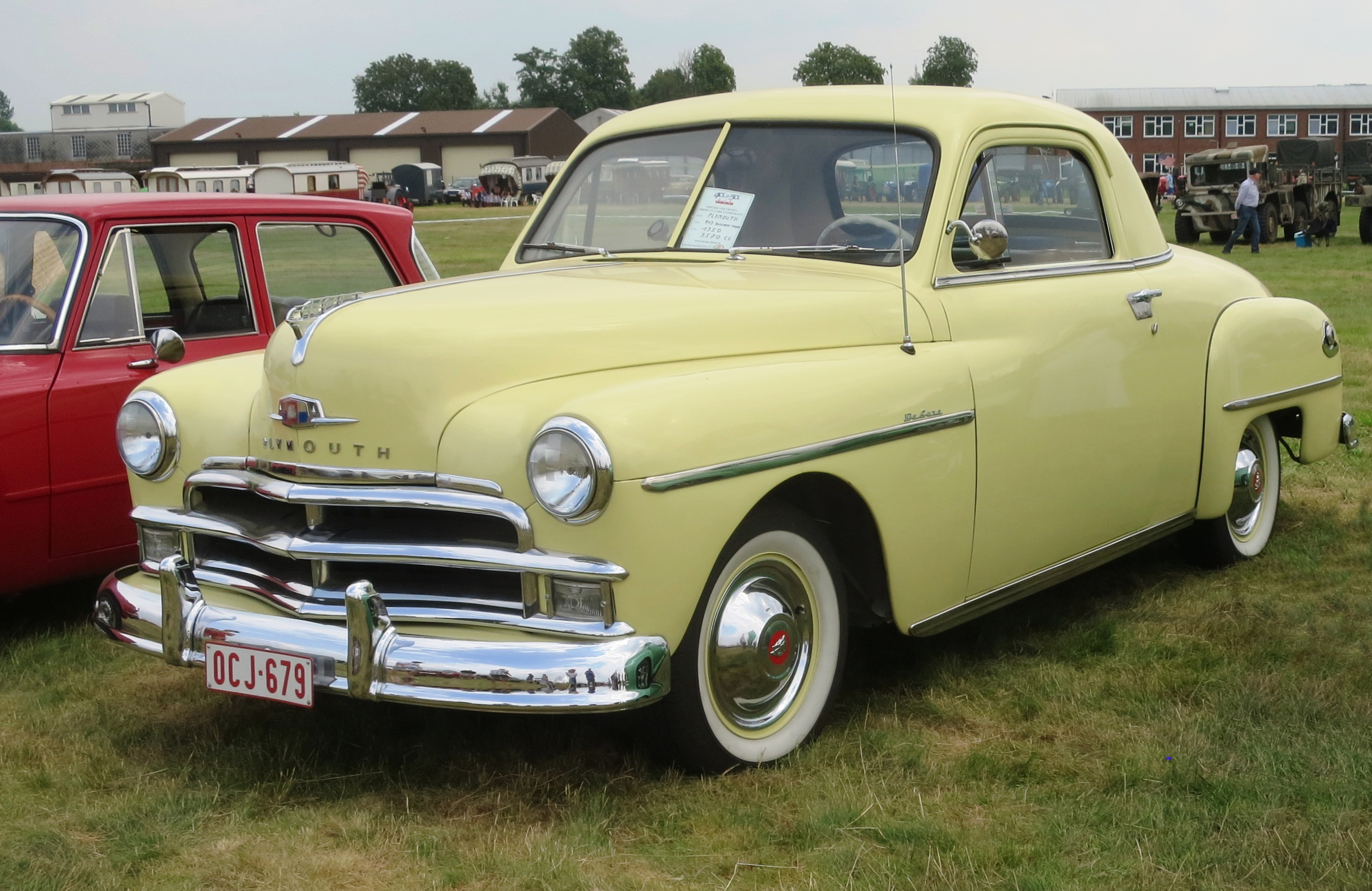 Plymouth P19 Business Coupé